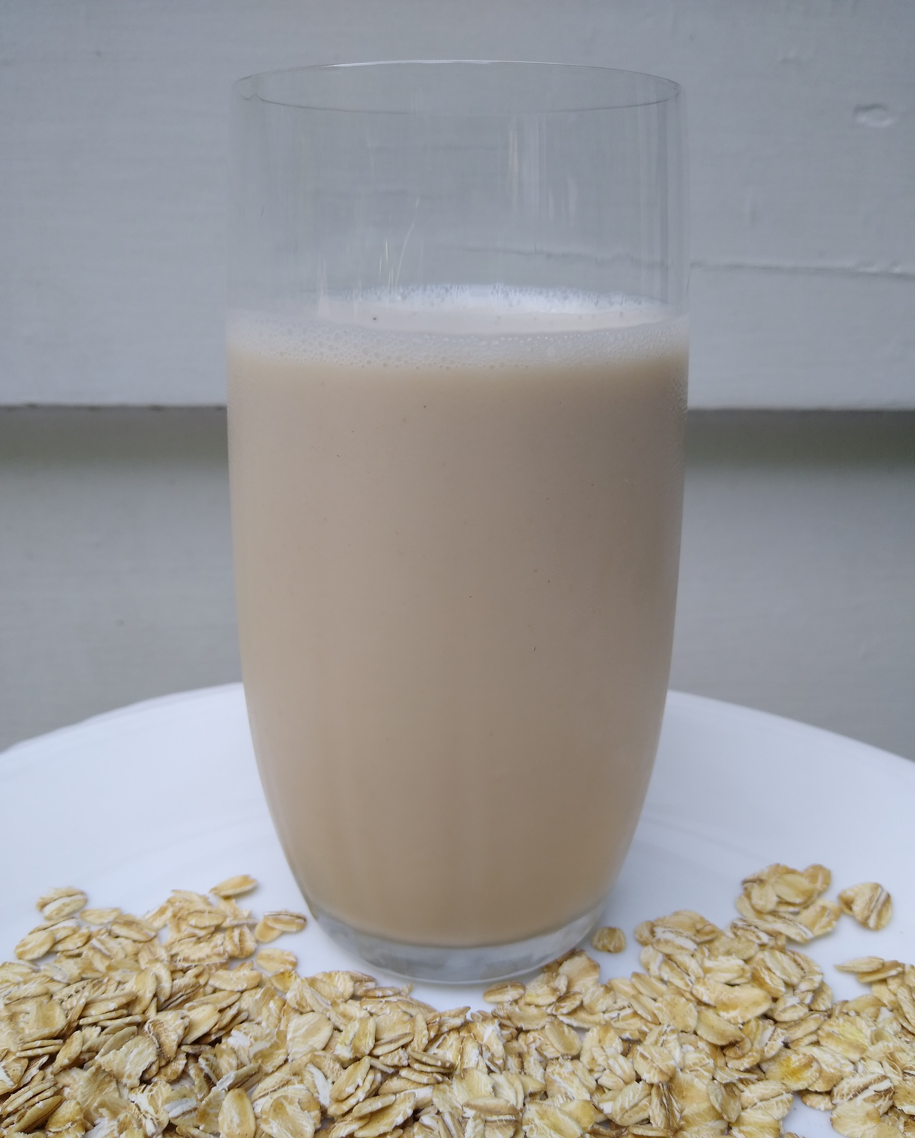 A glass of Silk "Oat Yeah" oatmilk ("The Plain One"), photographed with oats.